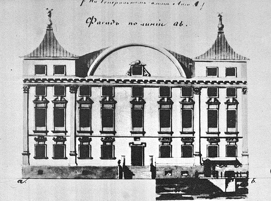 Old drawing of Sapieha Palace in Vilnius, before reconstruction for use as a military hospital in 1843